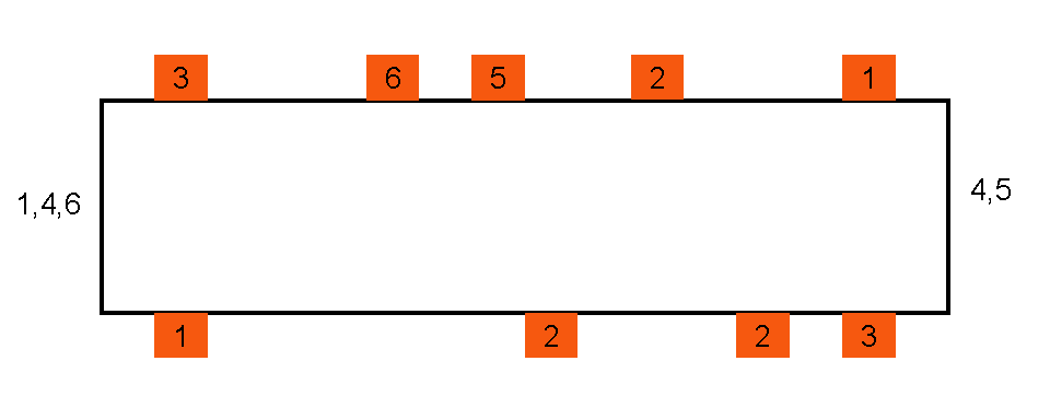 A graphical description of a channel routing problem. Originally uploaded to English Wikipedia as Image:ChannelRouteProblem.gif by User:LouScheffer.